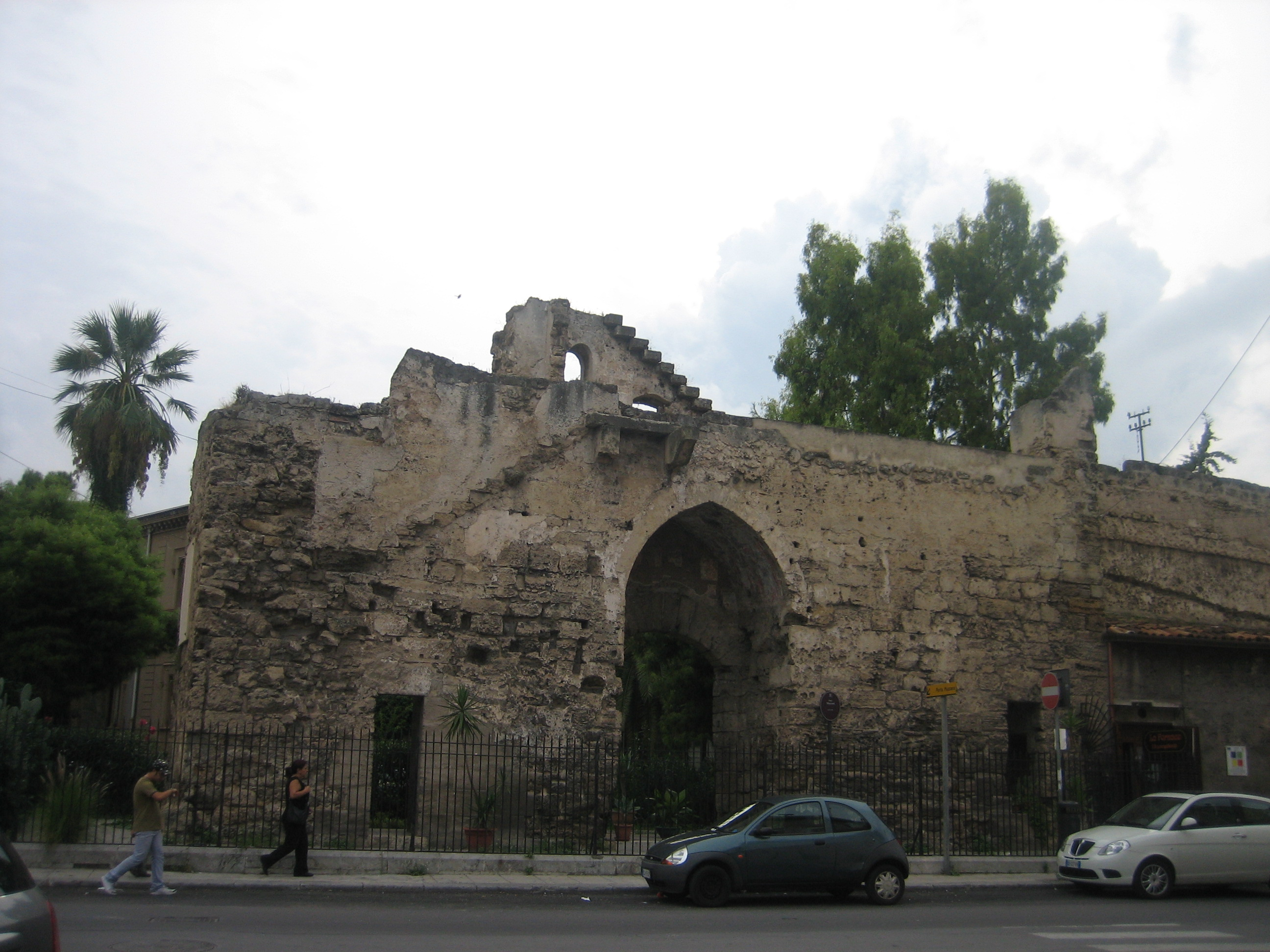 Ancient town gate Porta di Mazzara in Palermo.